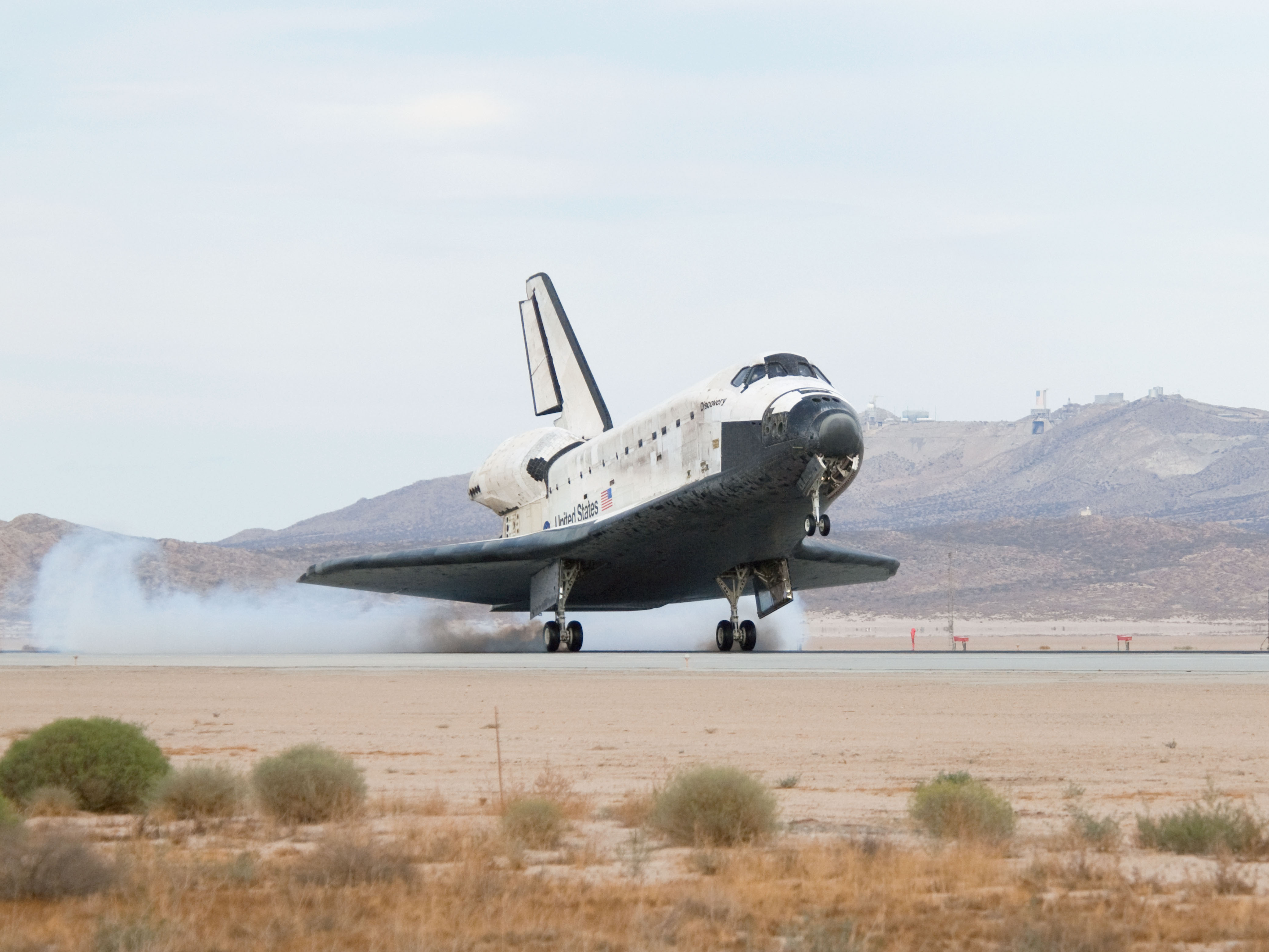 Streams of smoke trail from the main landing gear tires as Space Shuttle Discovery touches down on Runway 22L at Edwards Air Force Base to conclude the almost 14-day STS-128 mission to the International Space Station. Other description